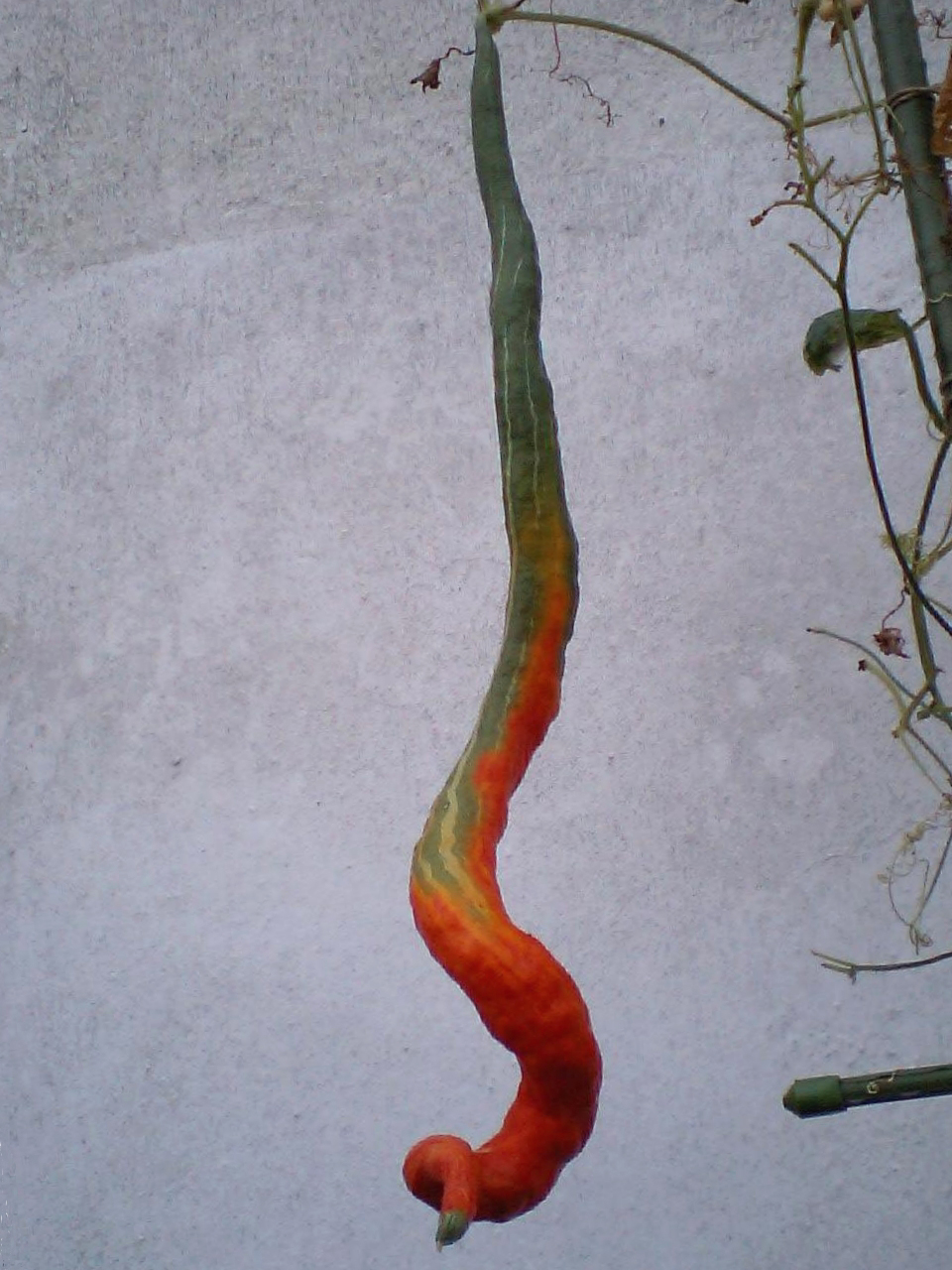 Snake Gourd (Trichosanthes anguina)